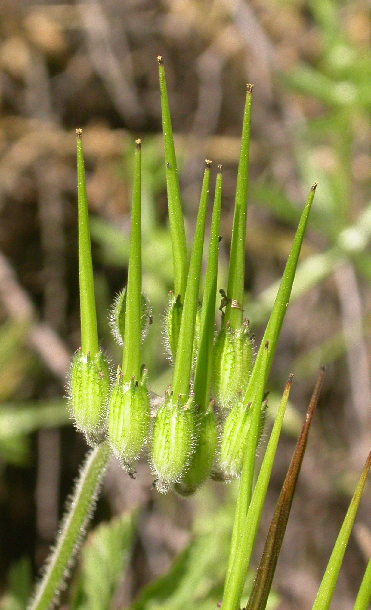 Photographed in Voorhis Ecological Reserve near Pomona, CA, USA. Species is an introduced weed.